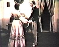 Shot from the movie Amalia. Directed by Enrique García Velloso and based on the novel by José Mármol, the film starred Dora Huergo and Lola Marcó del Pont. Amalia was also the first full length film produced in Argentina.